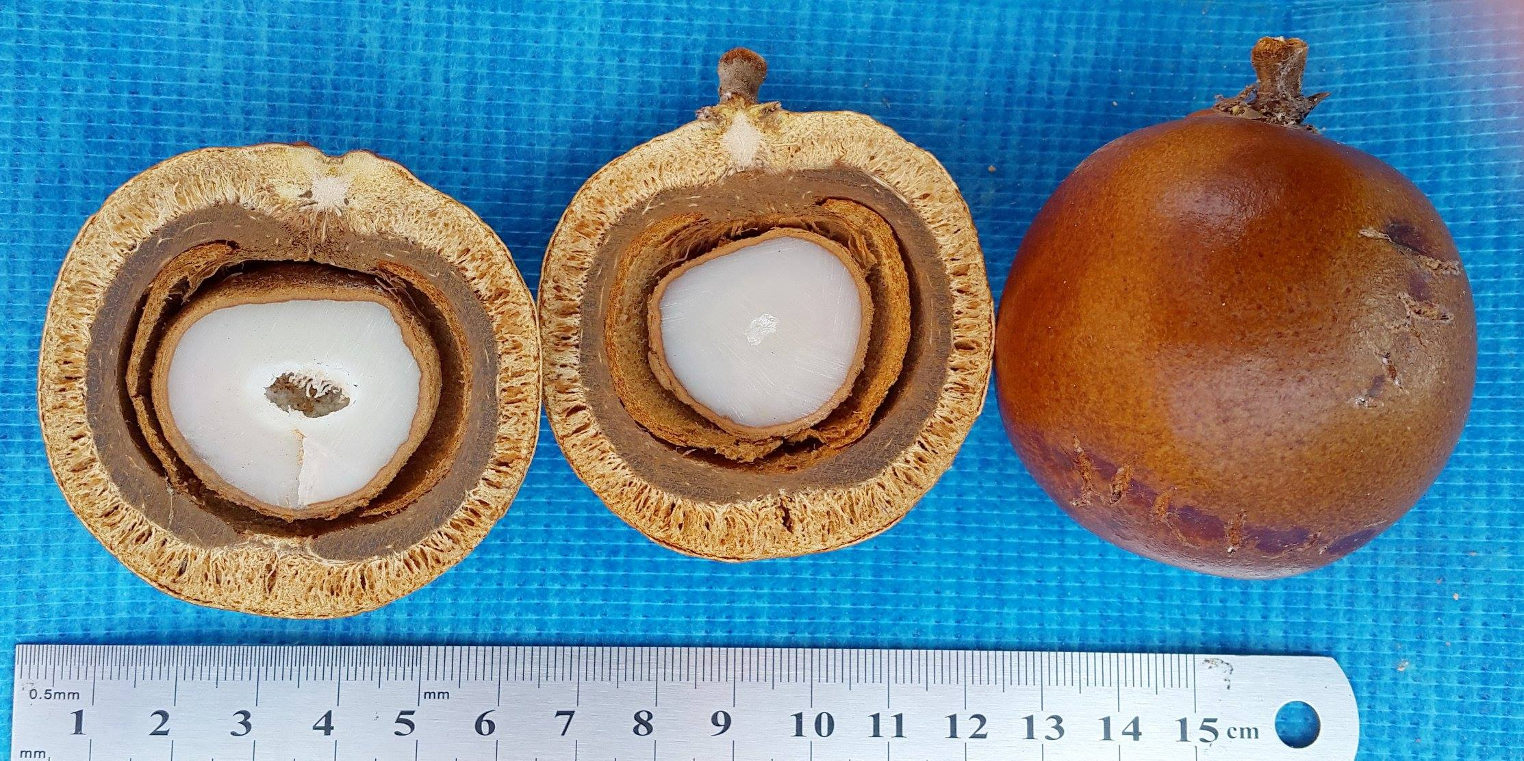 Hyphaene petersiana Klotzsch ex Mart. fruits - ex Shingwedzi, Kruger National Park, South Africa